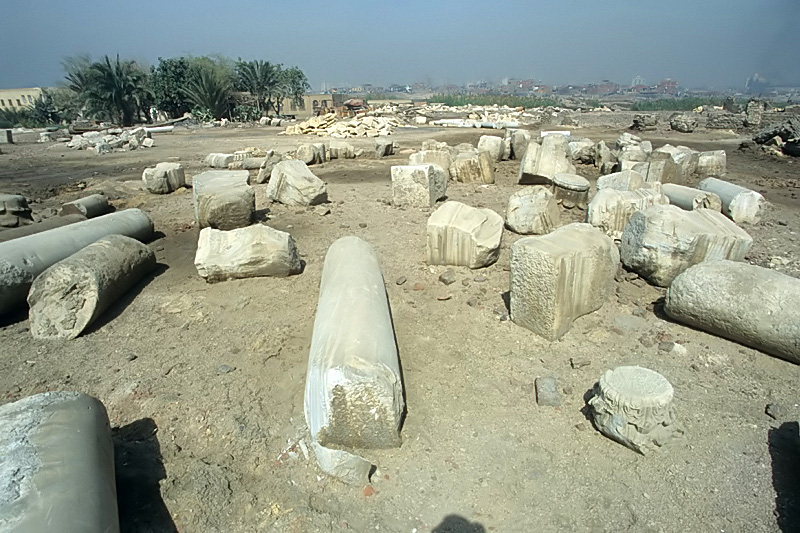 Columns, Fustat Ruins, Old Cairo, Egypt